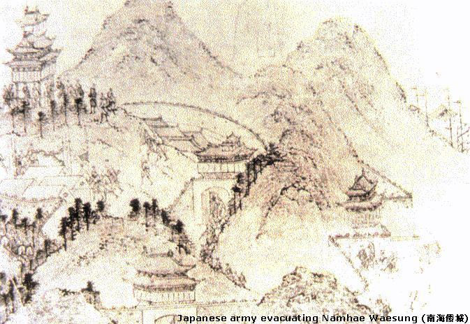 We can clearly see the dungeon (Tenshukaku) on the top left, Gates and barracks, their boats and the sea shores on the top right behind the mountains